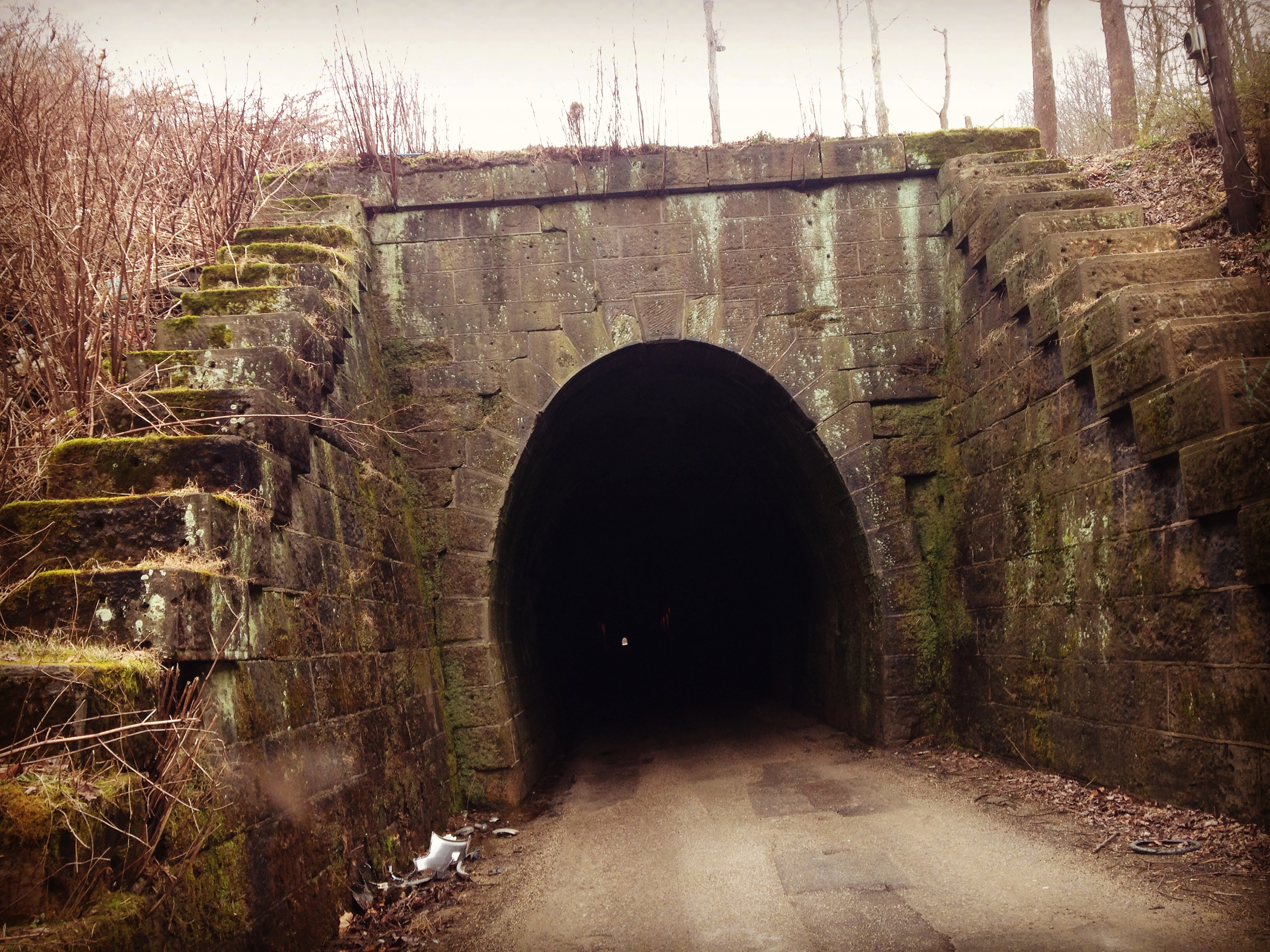 This file shows the Dingess Tunnel as it appears in 2018.